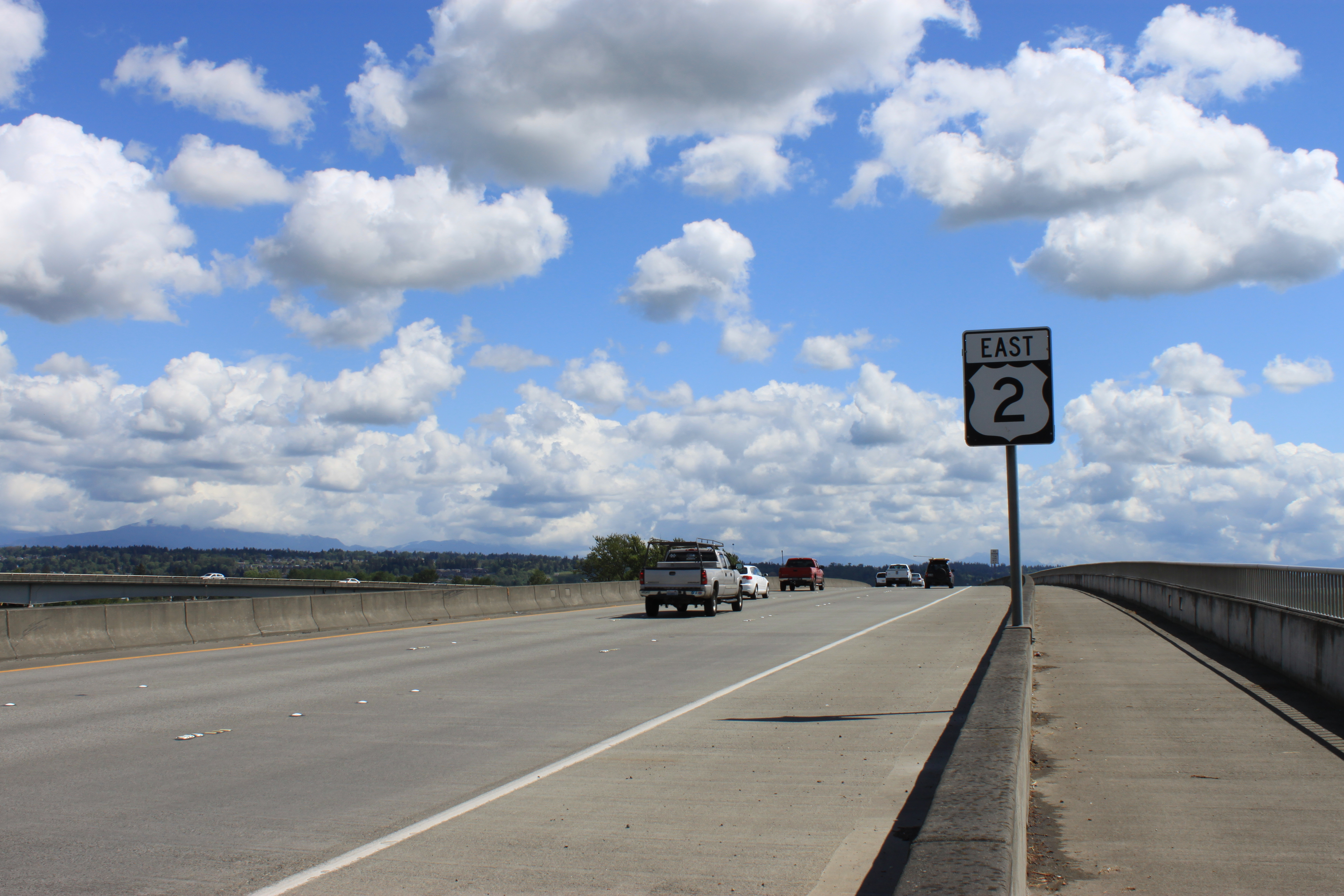 The first eastbound reassurance shield on U.S. Route 2 near its terminus in Everett, Washington.